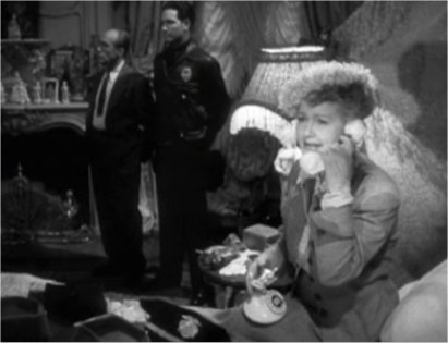 Screenshot taken by me (Icea) from the trailer to the movie Sunset Blvd.